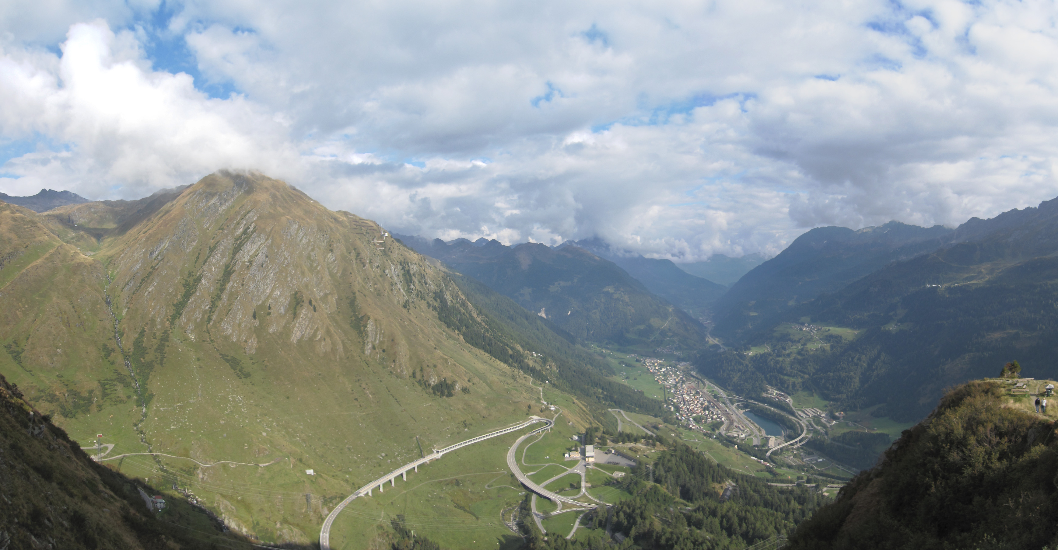 View of the St. Gotthard pass southern ramp.